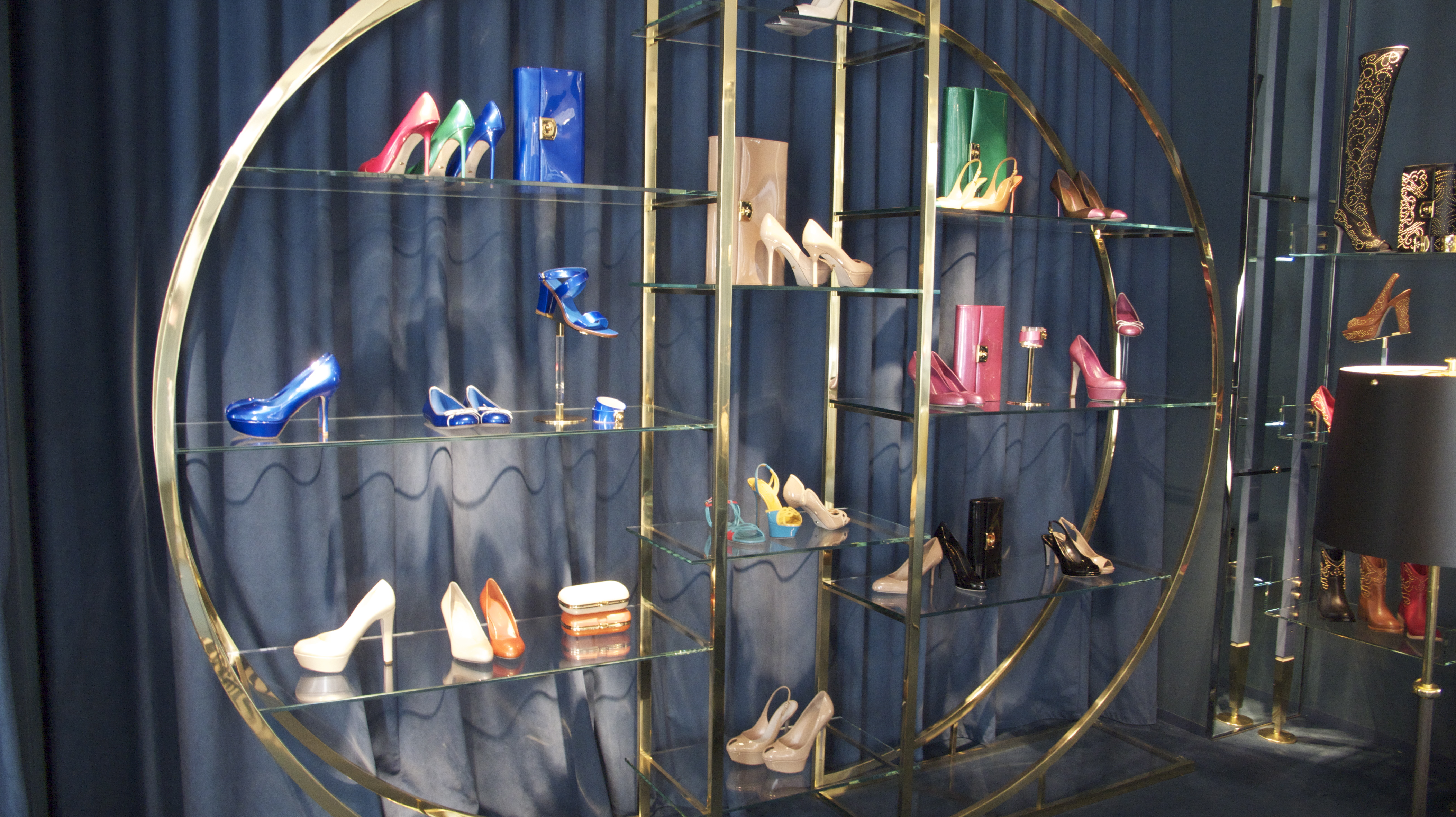 Sergio Rossi products at the store on Rue De Grenelle in Paris